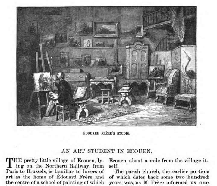 First page of illustrated article "An Art Student in Ecouen" with pictures of Edouard Frere's art school, published in the February 1885 edition of Harpers Monthly